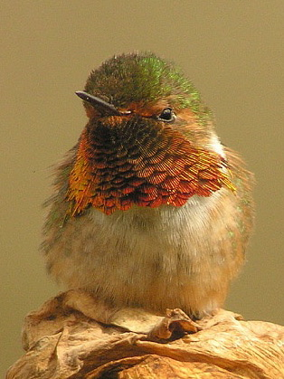 A male Scintillant Hummingbird (Selasphorus scintilla) from at Savegre Lodge, in San Gerado de Dota, Costa Rica. A common species at this locality.